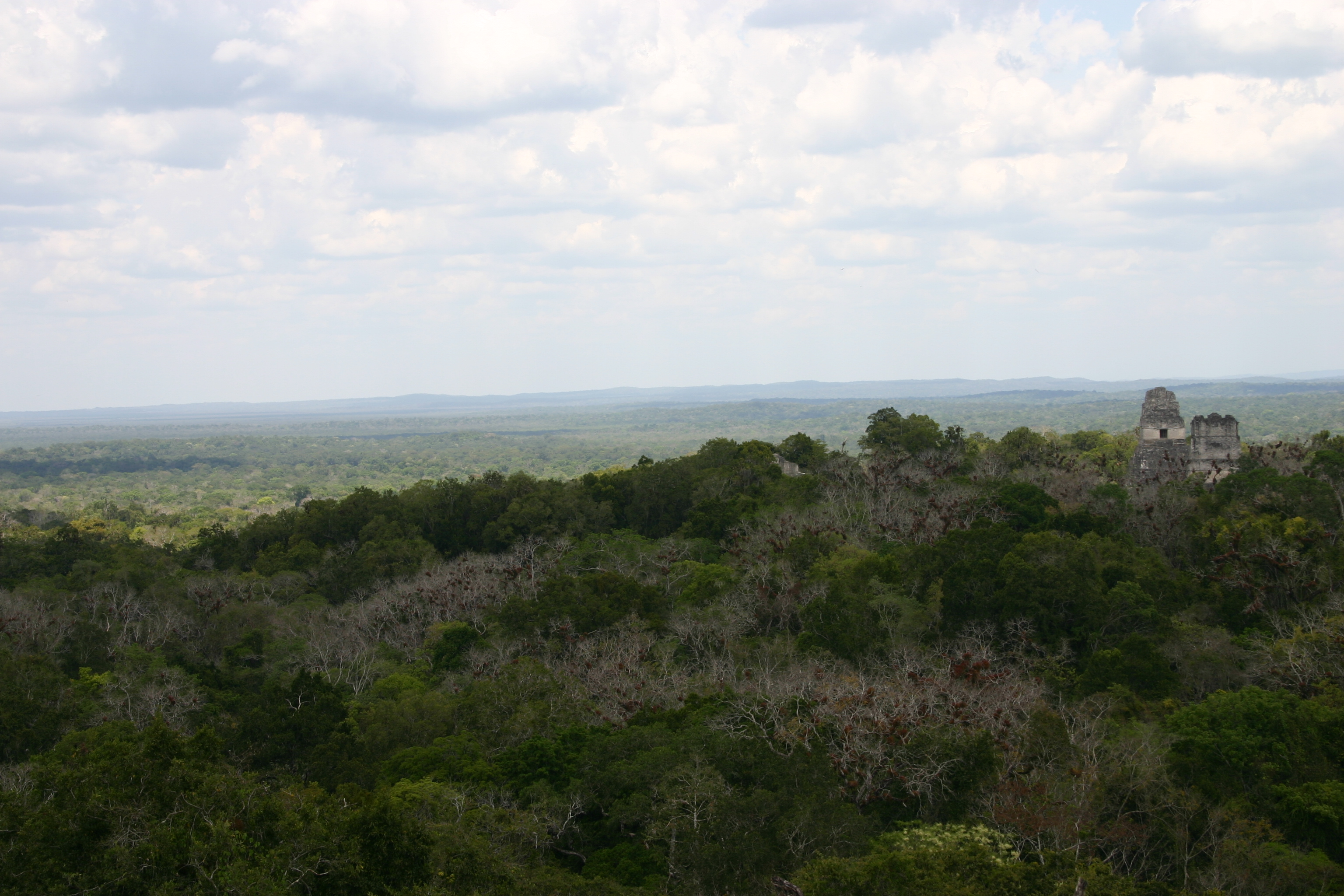 View of the tropical forest around Tikal, Guatemala.